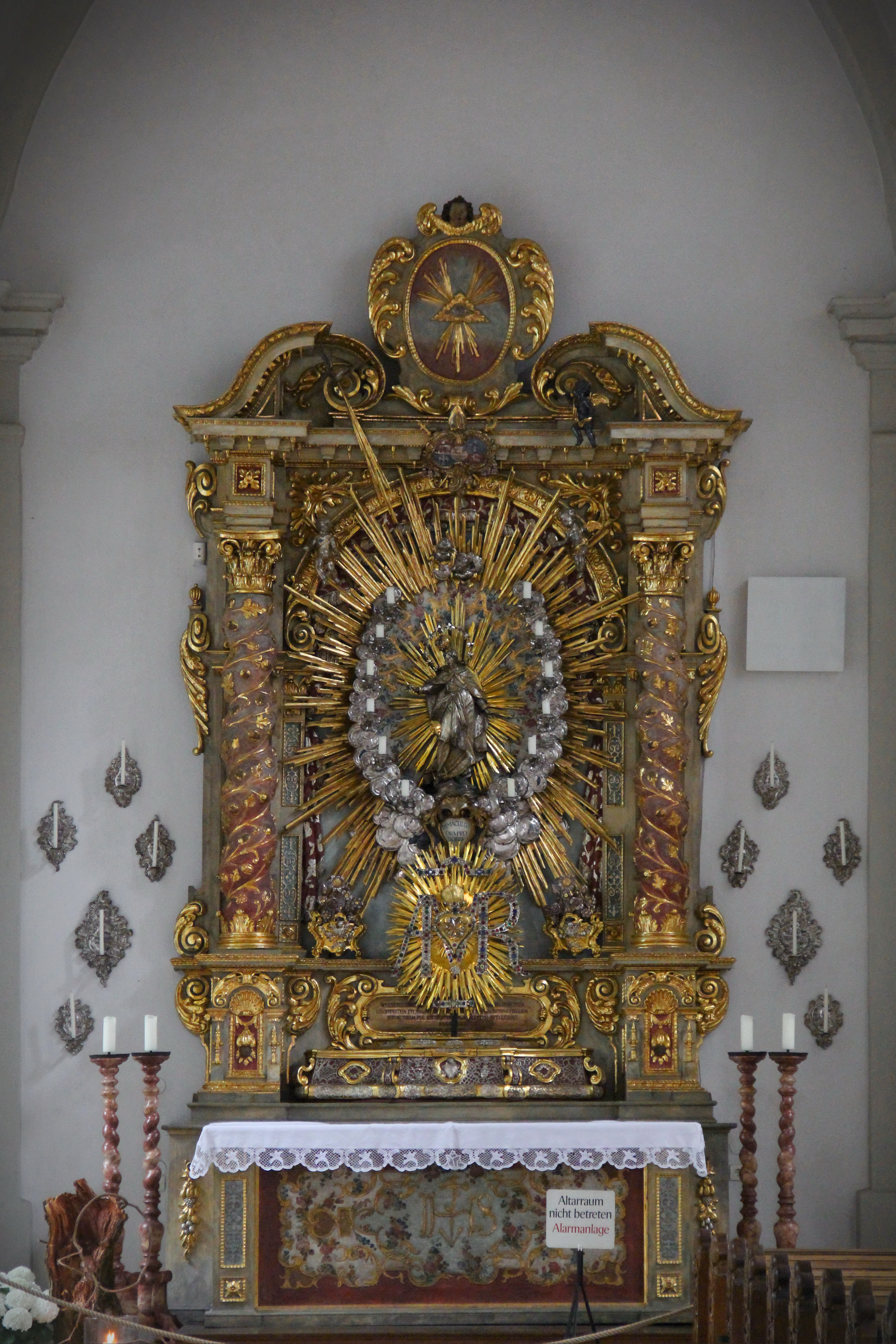 Church of St. Maurice Native nameMoritzkircheLocationIngolstadt, GermanyCoordinates48° 45′ 48.75″ N, 11° 25′ 28.97″ E Established9c